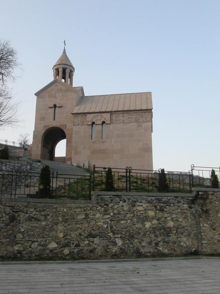 Saint Gregory the Illuminator Church, Koghb